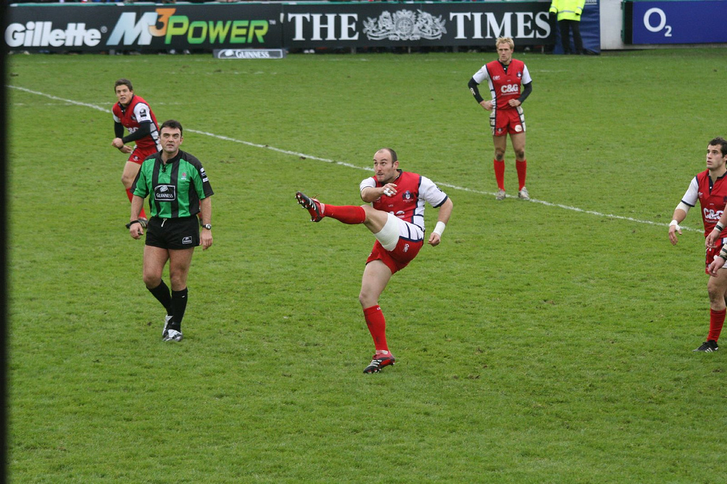 Ludovic Mercier. Gloucester v Saracens 26 november 2005.